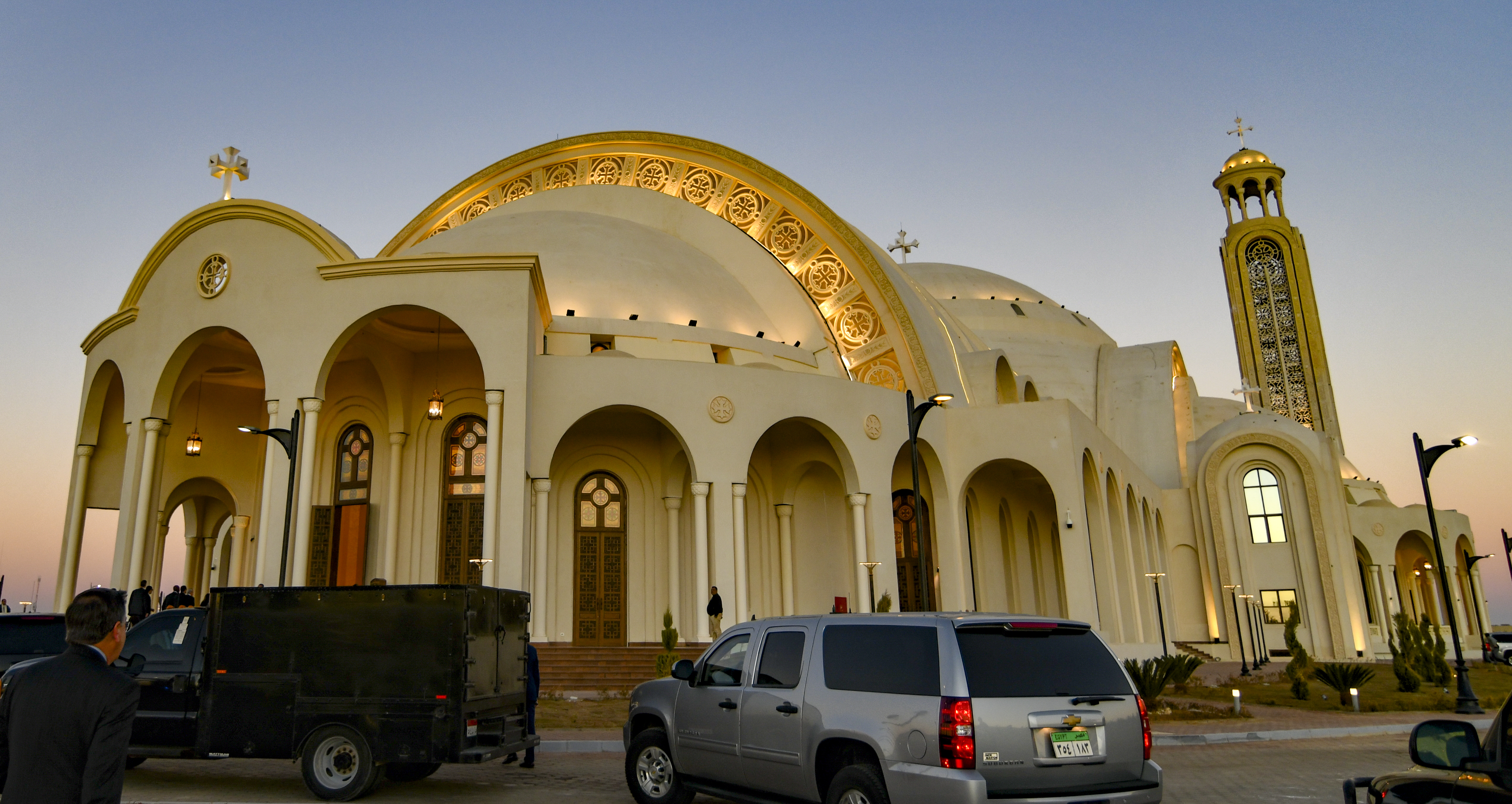 U.S. Secretary of State Michael R. Pompeo visits the Cathedral of the Nativity in Cairo, Egypt, on January 10, 2019. [State Department photo/Public Domain]